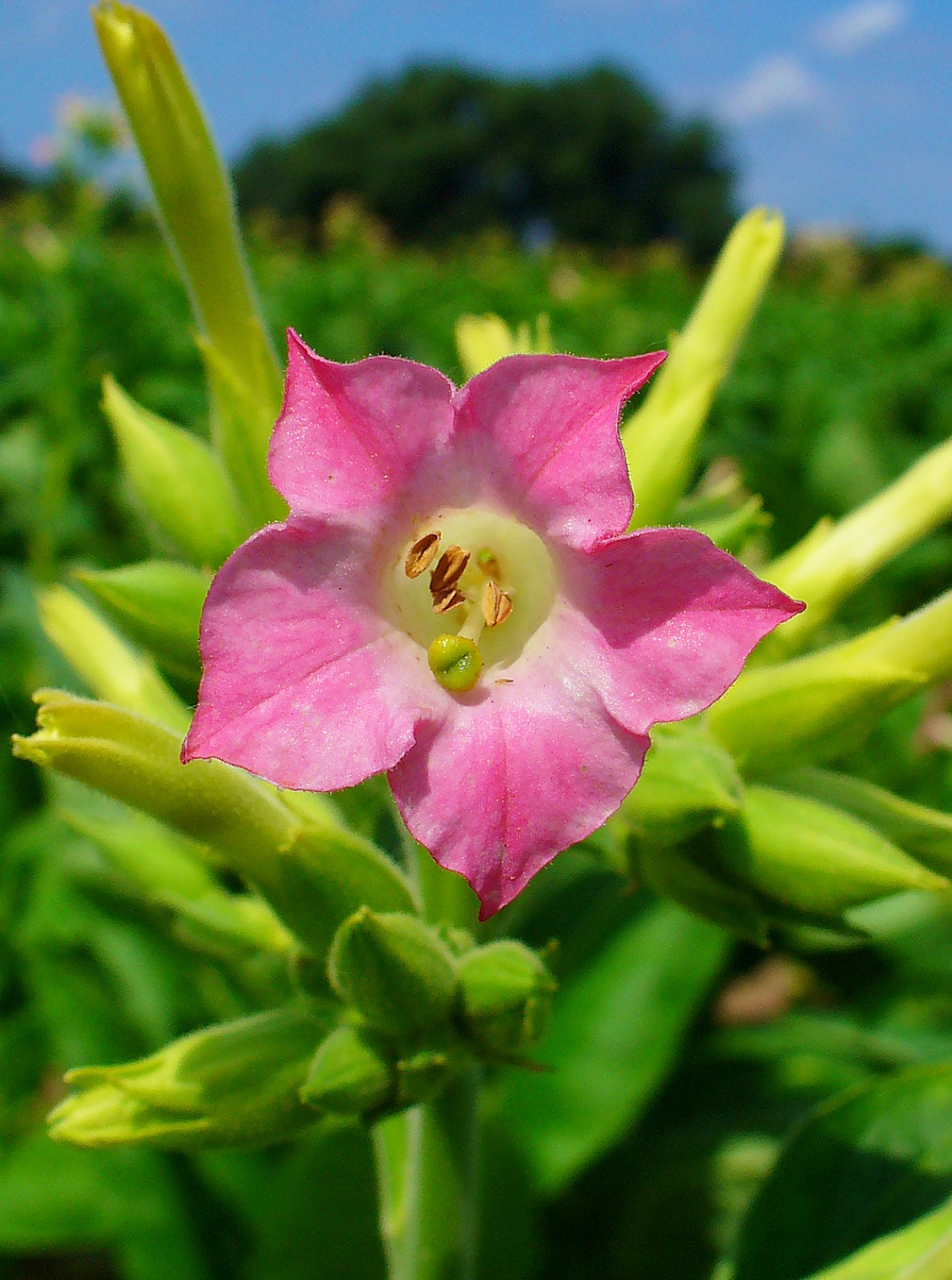 Nicotiana tabacum, Solanaceae, Common Tobacco, flower. Stutensee, Germany.